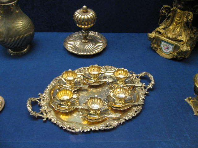 Parts of the Valuable Collection (Değerli Eşyalar) in Dolmabahçe Palace.